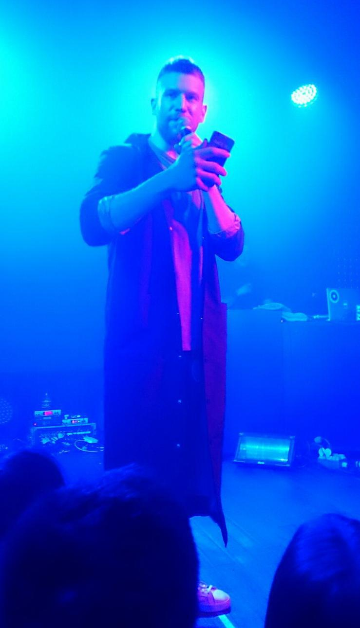 Ivan Dorn in concert. Russia, Baskortostan, Ufa Music Hall. 13.03.2016